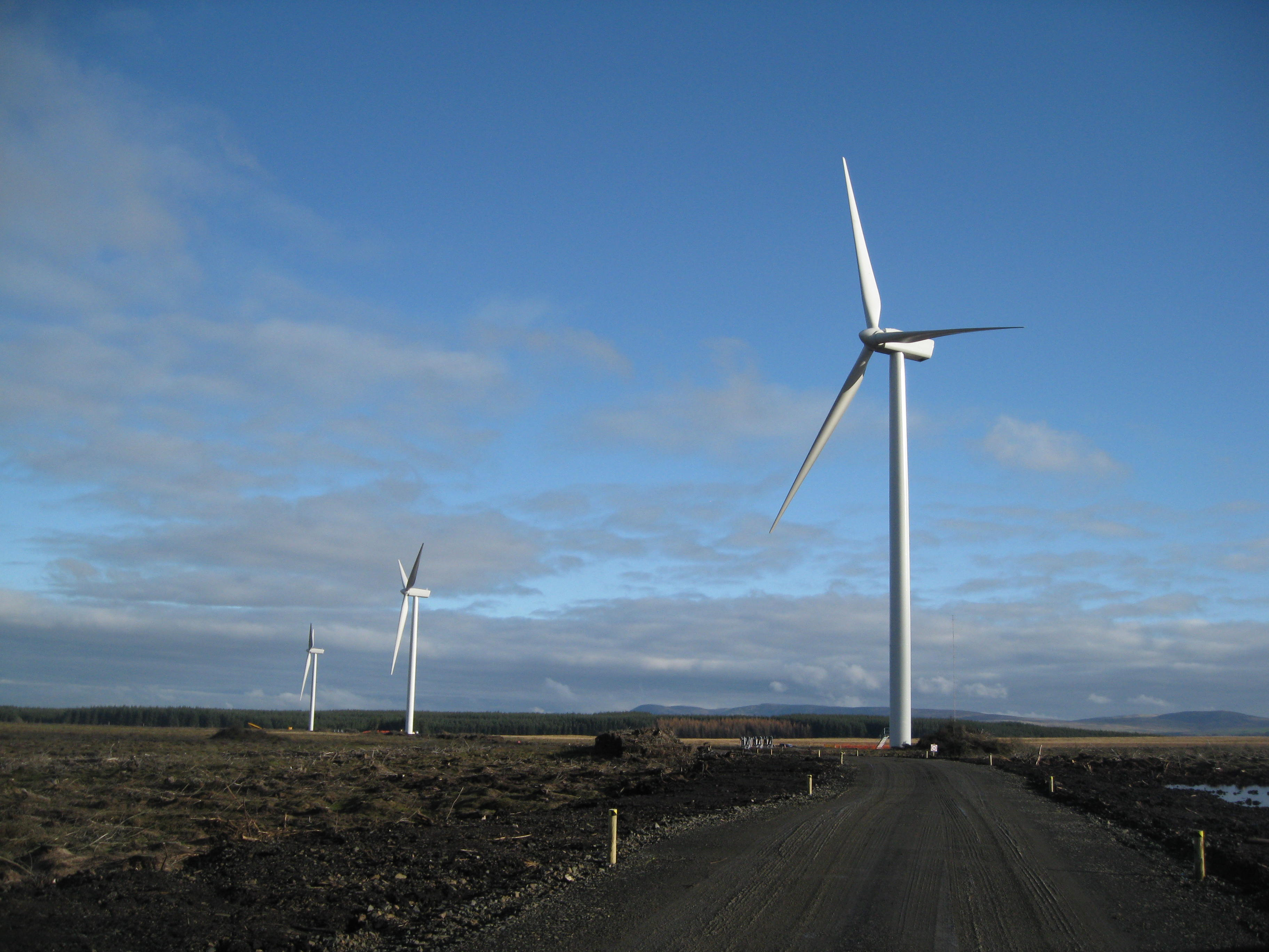 Pates Hill Wind Farm nearly completed construction